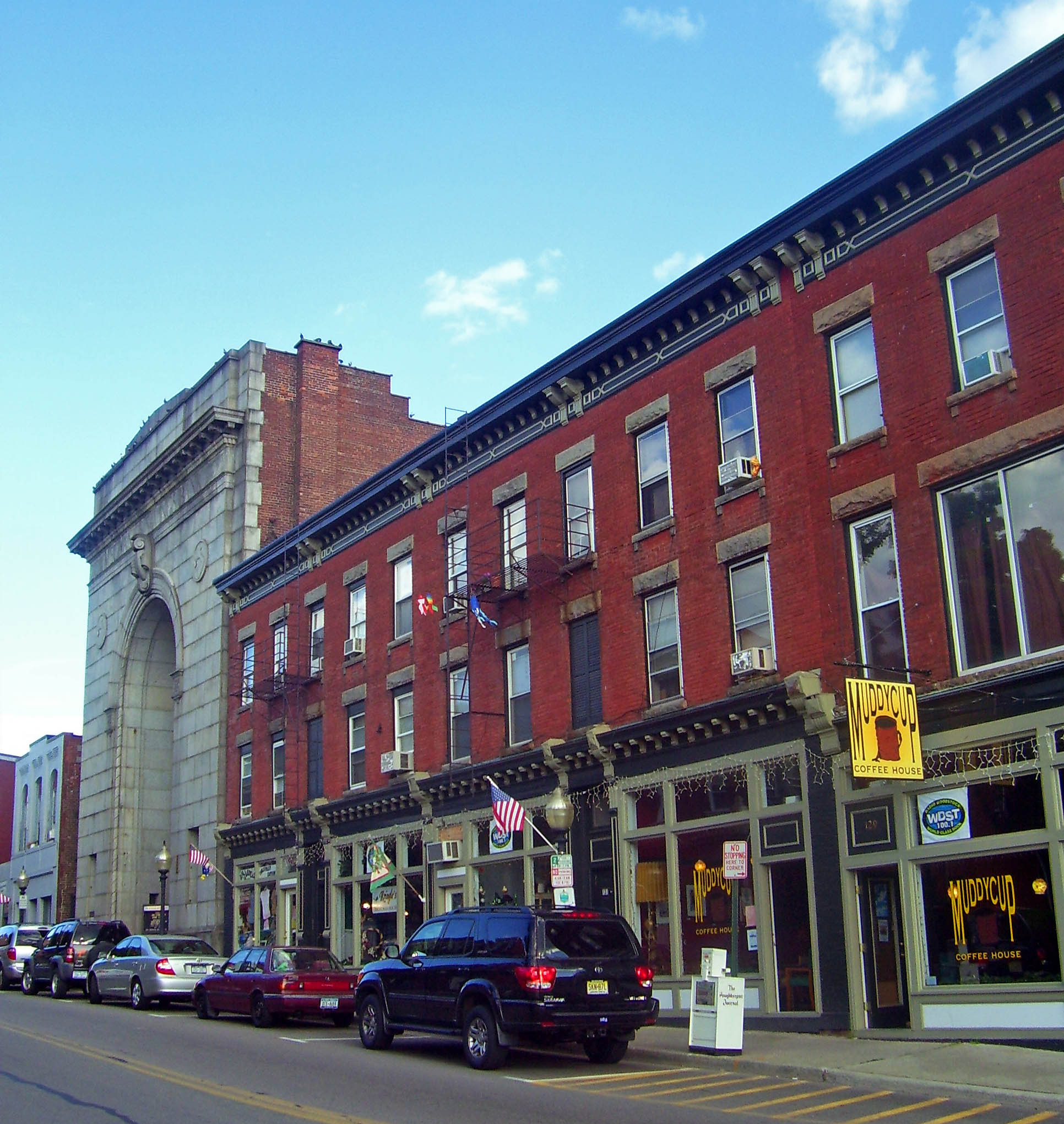 Part of the Lower Main Street Historic District in Beacon, NY, USA